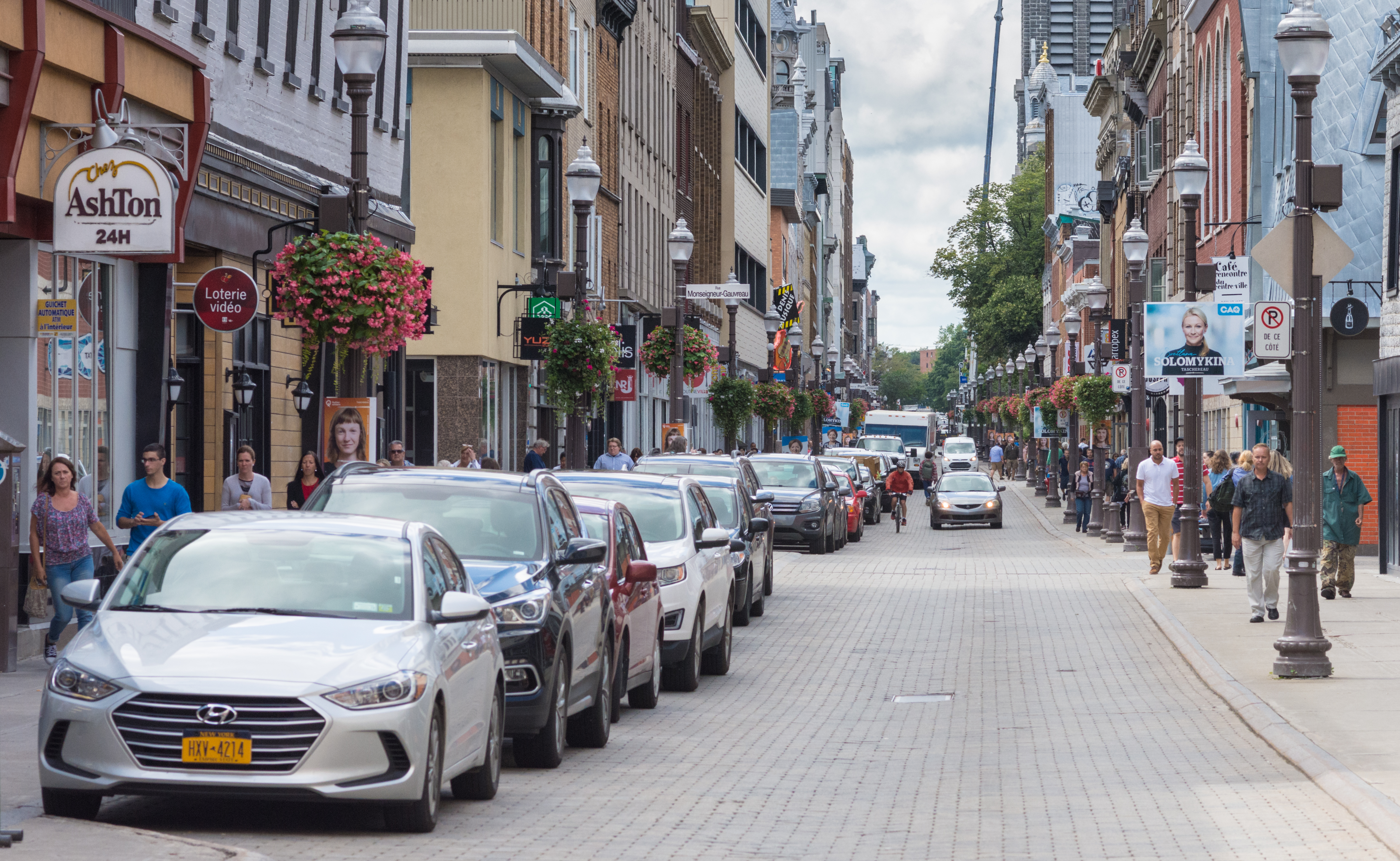 Québec downtown, Québec city, Canadá